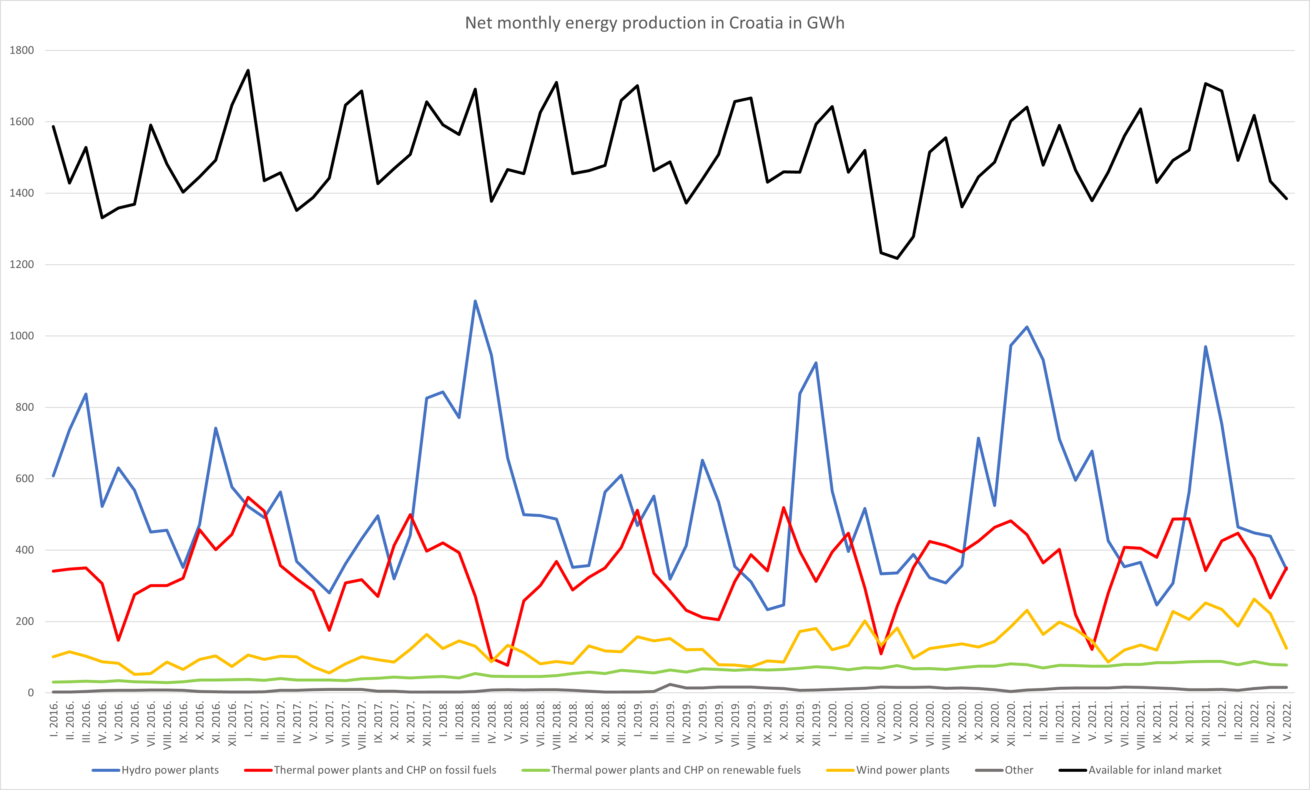 Statistics of electric energy productions in Croatia for period from 2002. to 2014. Source of data is Croatian Bureau Of Statistics